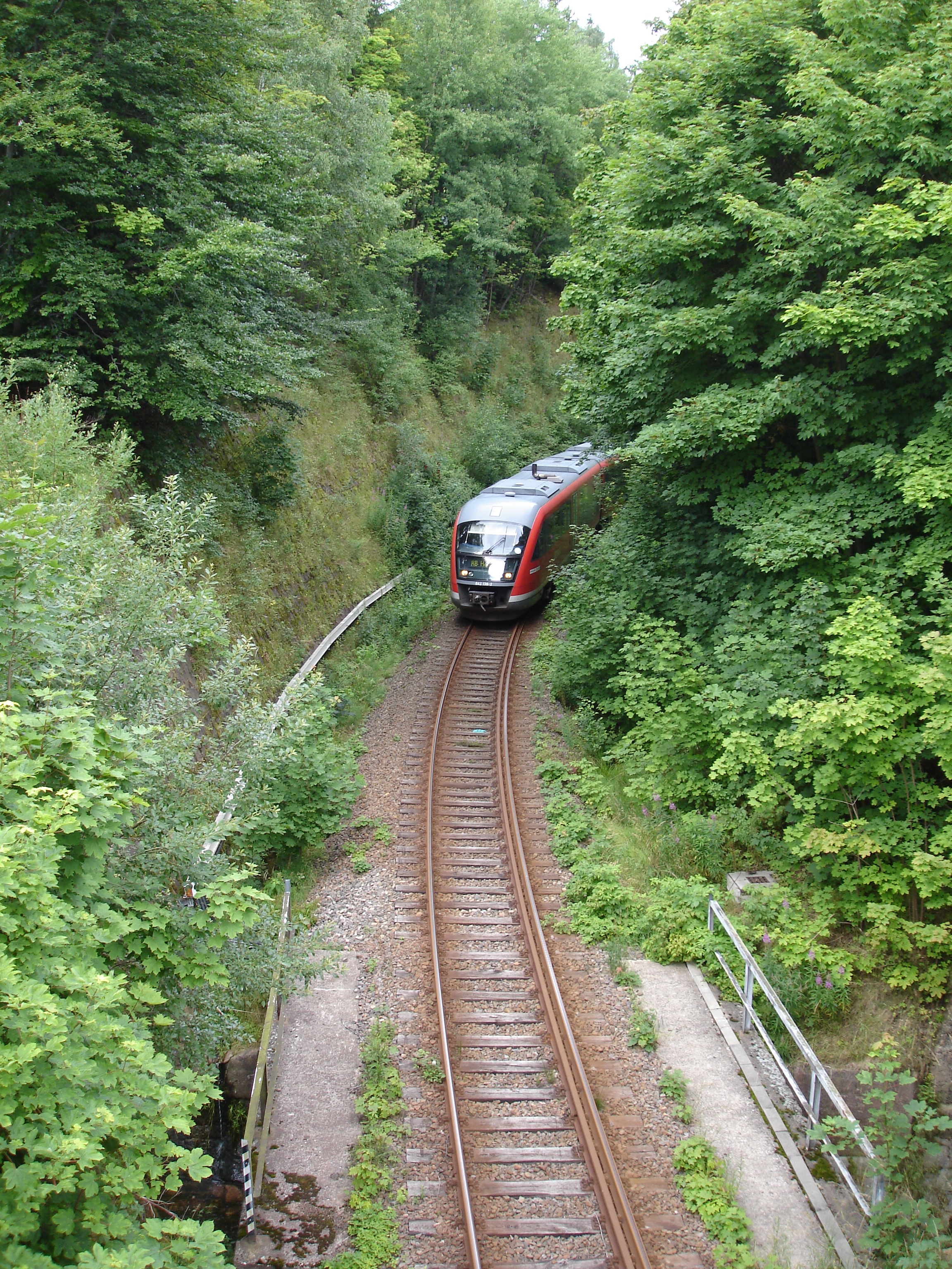 train near Geising, Müglitztalbahn, Saxony, Germany